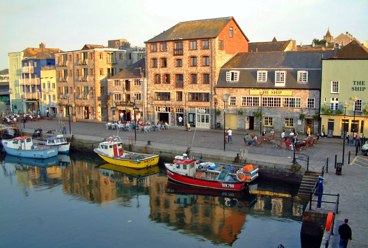 Ok so next time I'll remember to try and match exposures- thats what happens when you get lazy and use auto!